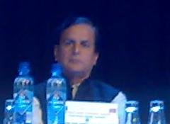 Picture of Javed Hashmi taken at pakistani national day, 2008